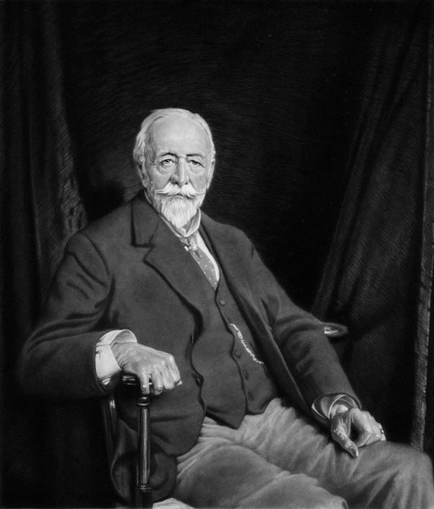 Thomas Clifford Allbutt